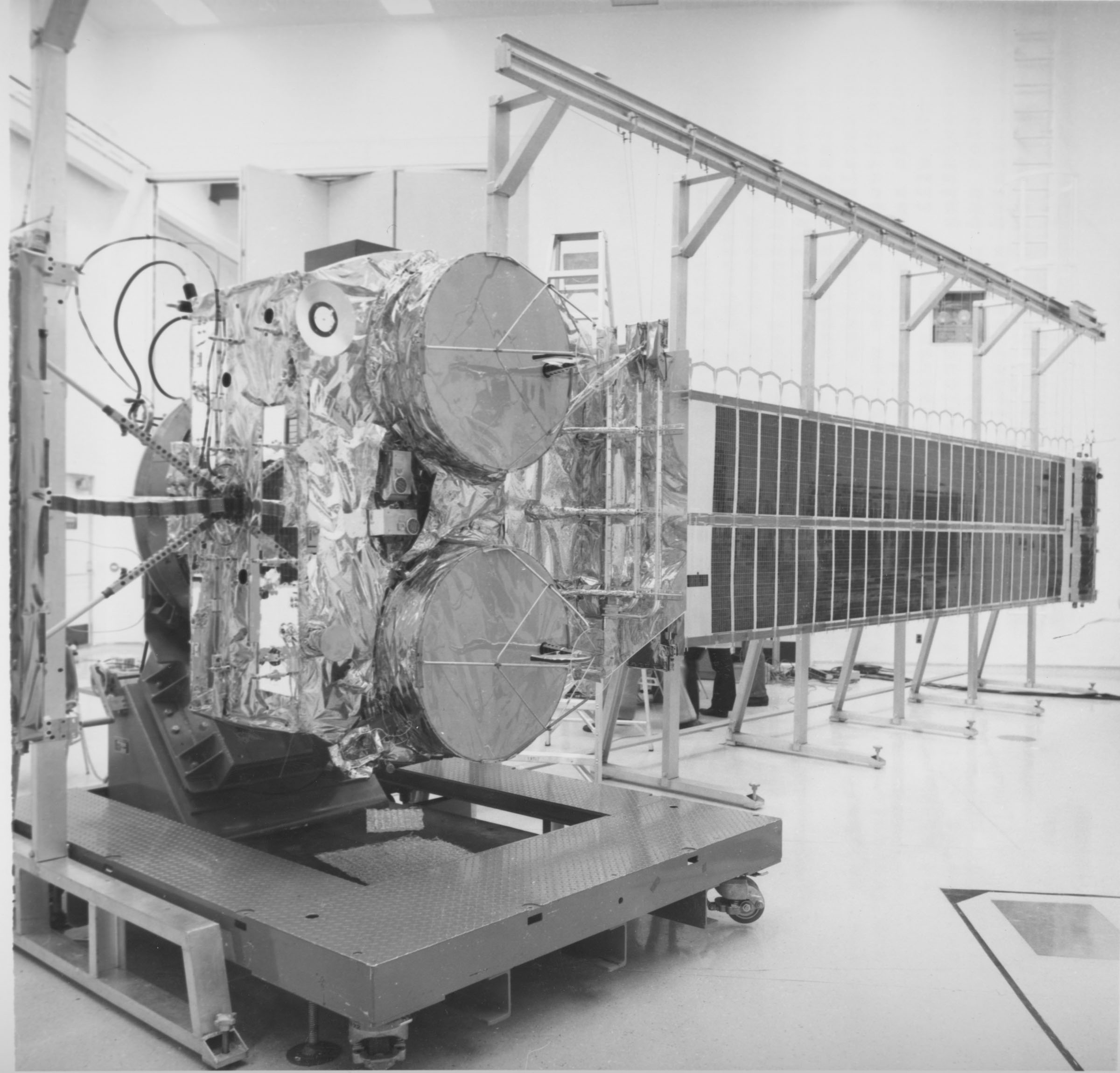 The Communication Technology Satellite was launched from NASA's Kennedy Space Center, Florida, on January 17, 1976 and operated until October 1979. This high-powered spacecraft was the result of a five-year effort of international cooperation between NASA and Canada's Department of Communications. Canada designed and built the spacecraft and NASA tested, launched, and operated the CTS. The Canadians later renamed the spacecraft after the mythical Greek messenger god, Hermes. The transmitter improved 10-20 times the broadcast power of typical communication satellites of the era. With more power transmitted by the satellite, it was possible to use smaller and cheaper ground stations thus paving the way for applications such as direct broadcast television. The CTS is the second satellite designed to transmit high-quality color television. The first was the Application Technology Satellite (ATS), which was launched December 17, 1966.